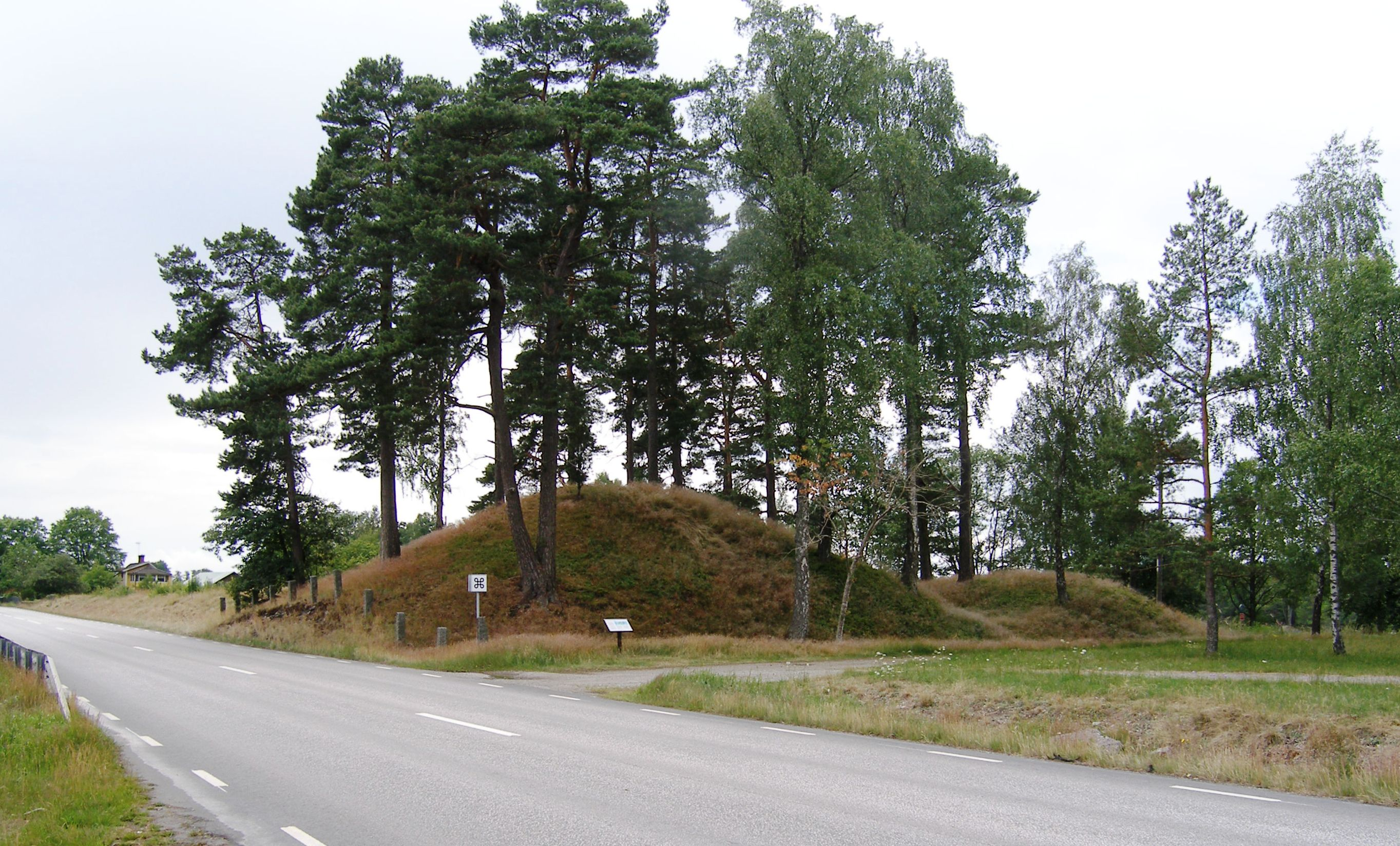 Hönshylte skans (Hönshylte sconce), Ryd, Tingsryds kommun, Småland, Sweden. A 14th century fortification.